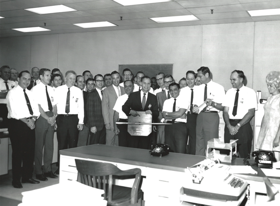 Harry Dornbrand receiving an award from colleagues at Fairchild Space and Electronics division for submitting the proposal for the ATS-6 satellite to NASA.